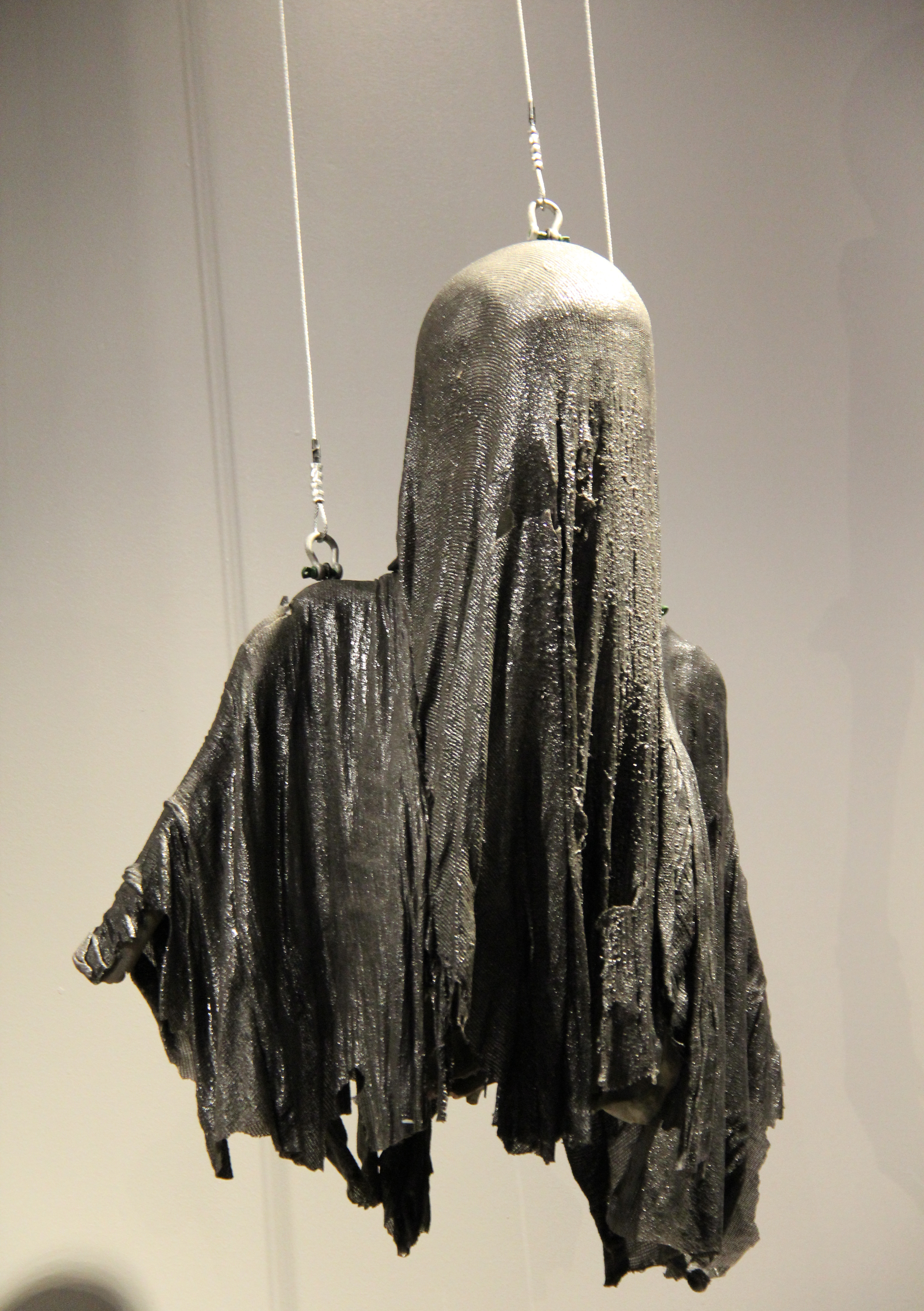 Dementor Dementor puppet - The Making of Harry Potter at Warner Bros. Studio Tour - London